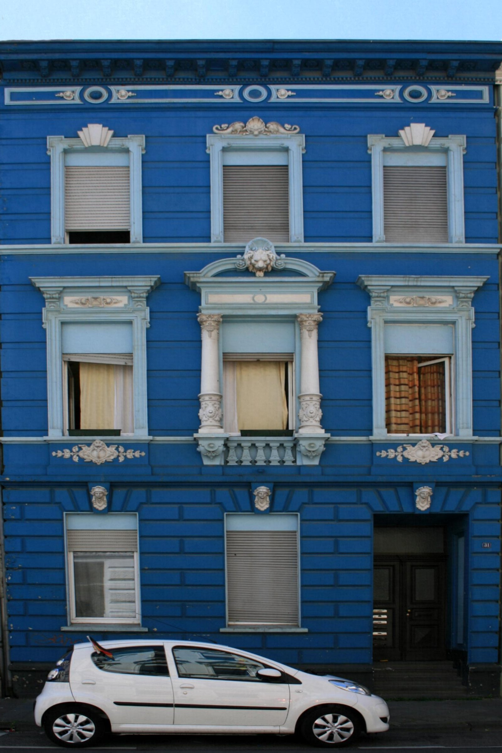 Cultural heritage monument No. H 005 in Mönchengladbach